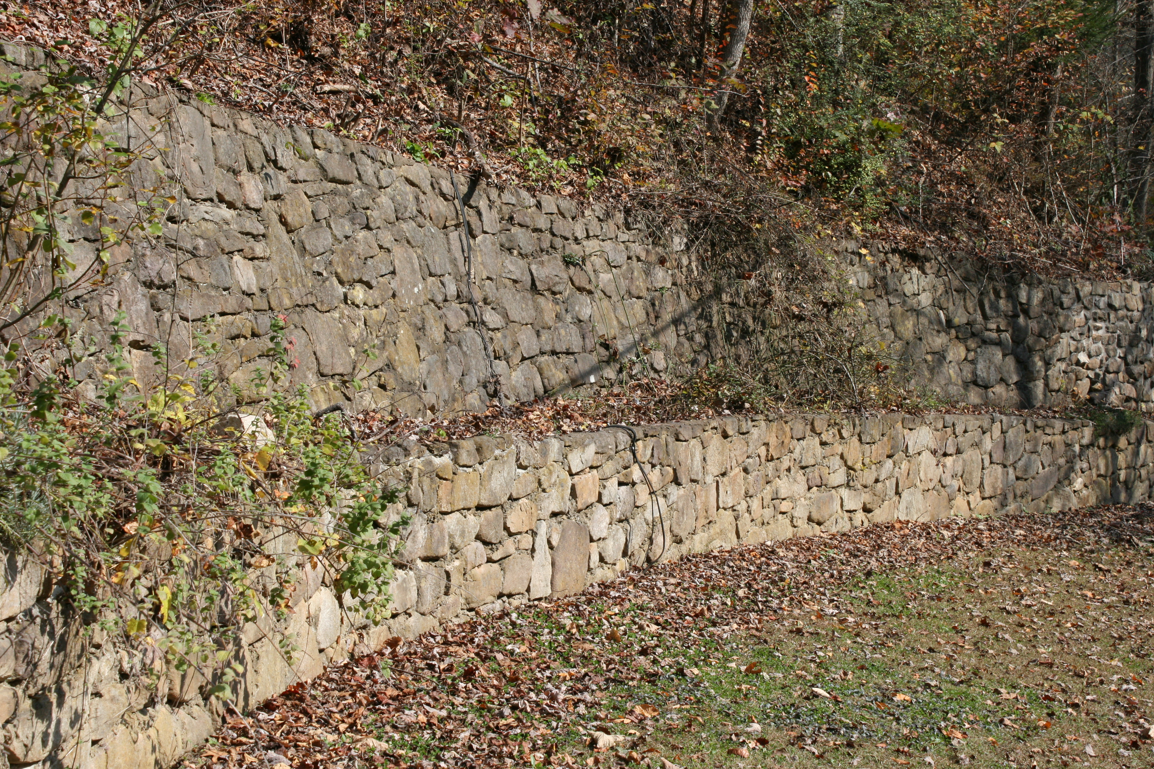 One of several rock walls built by Charlie Perry for Perry's Camp.